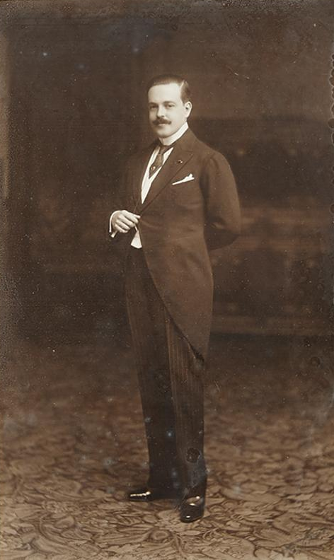 Full length portrait photograph of deposed King Manuel II of Portugal, signed and dated 1921 (not shown).